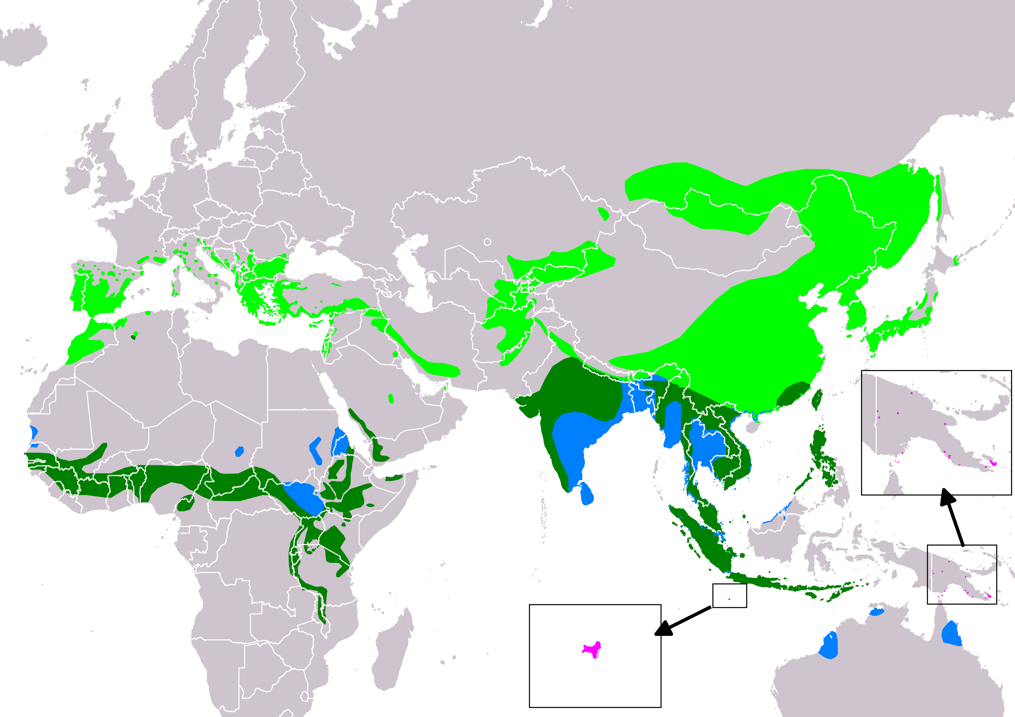 Map of red-rumped swallow (Cecropis daurica) according to IUCN version 2018.2 , Legend: Extant, breeding (#00FF00), Extant, resident (#008000), Extant, non-breeding (#007FFF), Extant & Vagrant (seasonality uncertain) (#FF00FF)